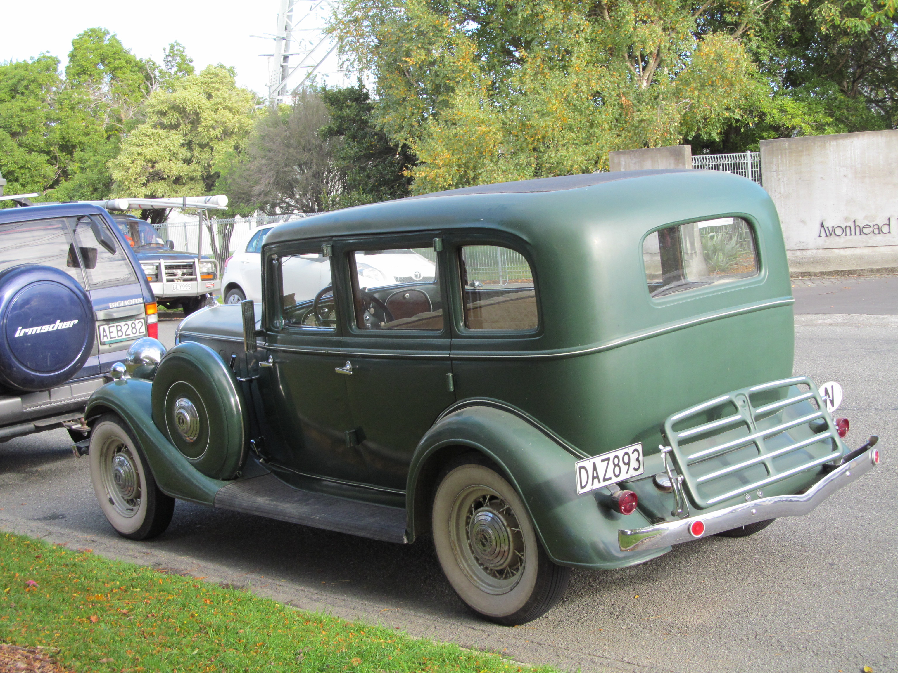 DAZ893 I should have guessed where this came from, as it has the 'N' country marker on the back! I didn't notice that it was LHD as well at the time. Any original New Zealand Terraplanes would be RHD...